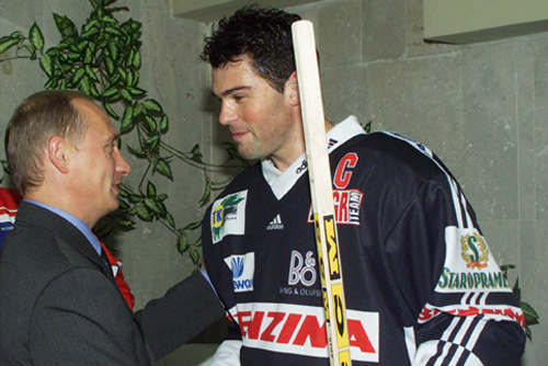 THE SOKOLNIKI SPORTS PALACE, MOSCOW. President Vladimir Putin with Czech ice hockey team captain Jaromir Jagr at the Russian-Czech Spartak Cup match.